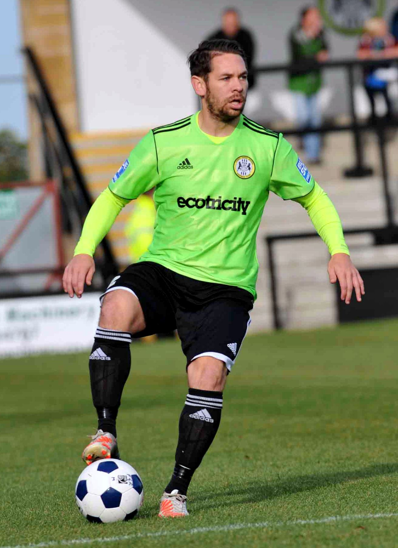 Jared Hodgkiss playing for Forest Green Rovers during 2012/13 season.